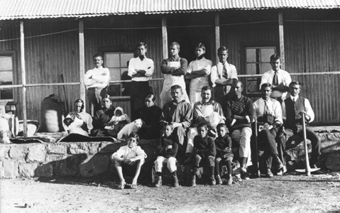 Members of the Tolstoy Farm created by Gandhi in South-Africa, 1910. Standing from right: L. Ramsamy, Ponsamy, L.M. Morgan, Venugopal Naidoo, C.K.T. Coopoo Naidoo and K. Devar. Sitting: Pragjee Desai, Rajee Naidoo, Joseph Roypen, Dr. Hermann Kallenbach, M.K. Gandhi, Mrs. P.K. Naidoo, Mrs. Lazarus, Mrs. C.K. Thambie Naidoo. Third row: Bala, Bhartasarathy, Naransamy and Puckry Naidoo (all sons of Thambie Naidoo).